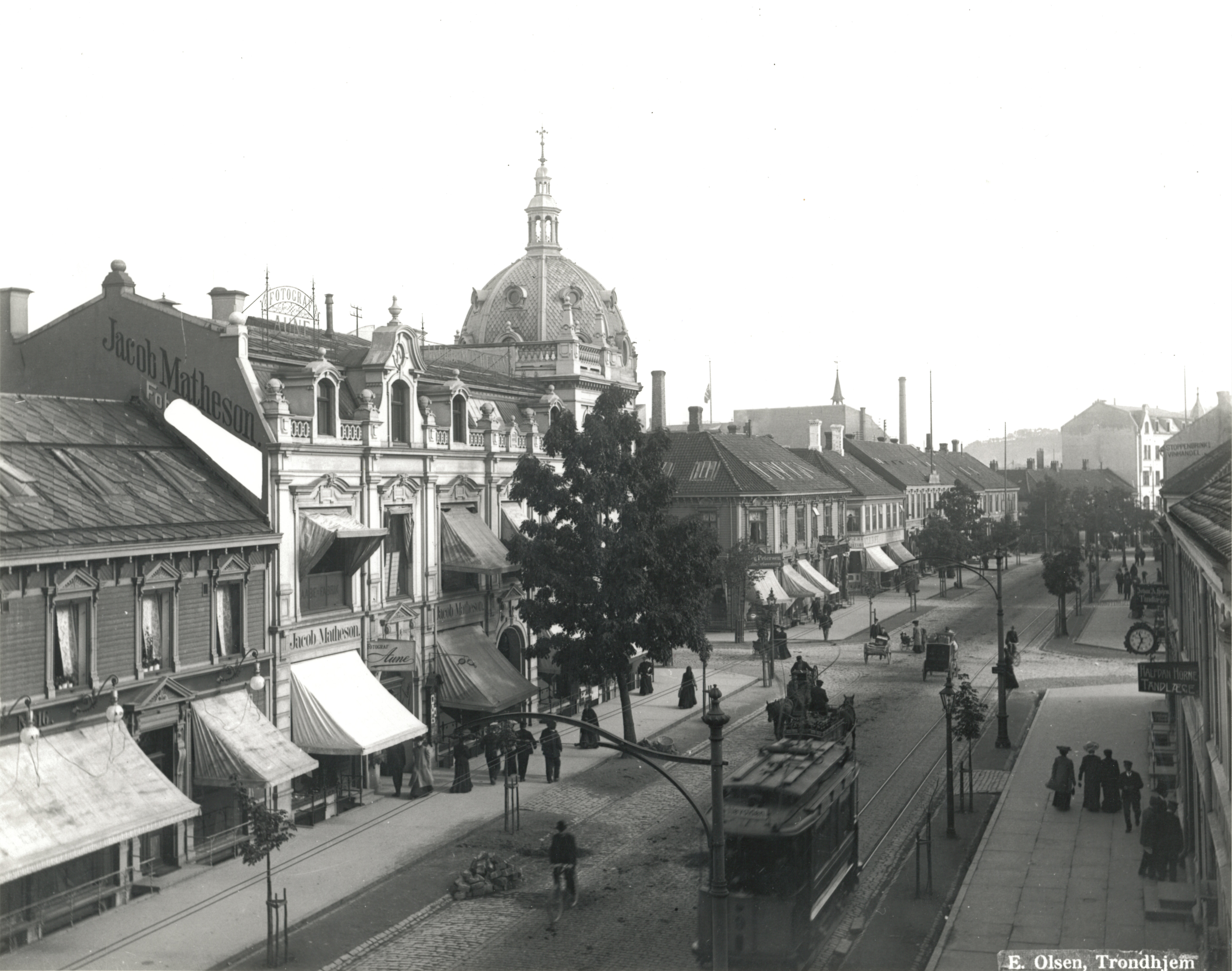 Format: Fotopositiv Dato / Date: 1908 Fotograf / Photographer: Erik Olsen (1835 - 1920) Sted / Place: Olav Tryggvasons gate, Trondheim Wikipedia: Olav Tryggvasons gate Eier / Owner Institution: Trondheim byarkiv, The Municipal Archives of Trondheim Arkivreferanse / Archive reference: Tor.H4x.Bxx.Fxxxx Merknad: Fotokopi fra en tidligere utstilling.